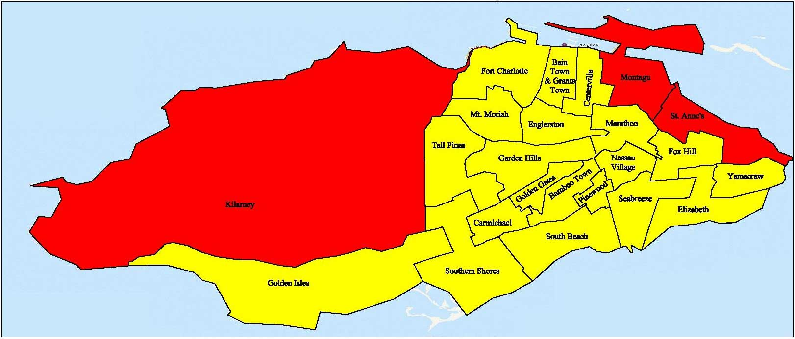 A map of the election results in the Bahamas with each seat coloured in.